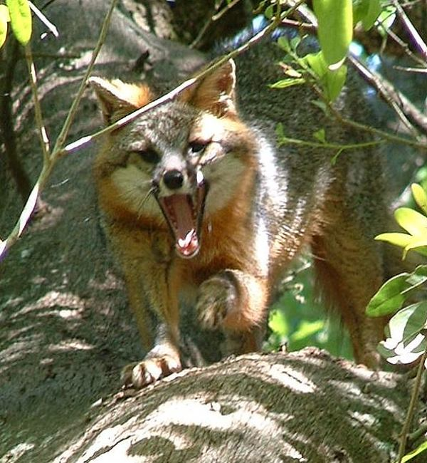 A yawning Gray Fox (Urocyon cinereoargenteus) on a tree trunk in north Florida.